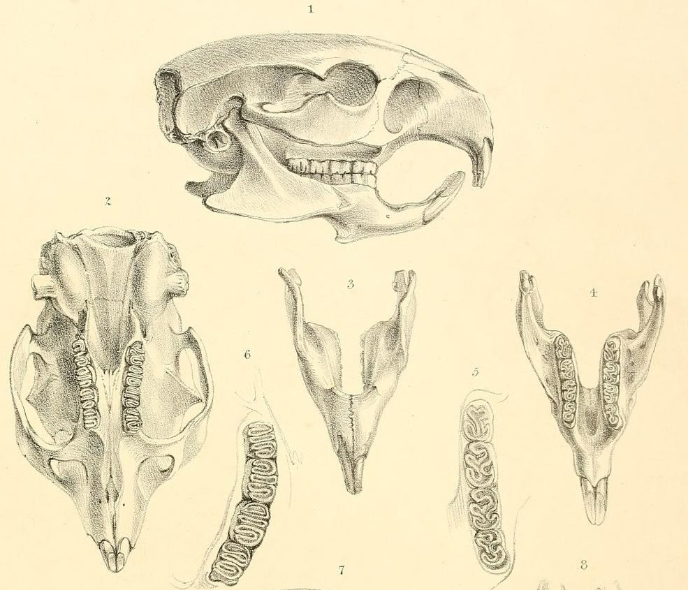 Hate 18. - . i^c-m.NatureliyB.^atei-Taim.seBavaaiiS . 3.ay £Hadae liXiH- i to the §ucoft - 1_6 . CHJi T MY S SUB S P IN S U S 7_1Z.SC1URUS GB.ISEO'CA."UDATUS